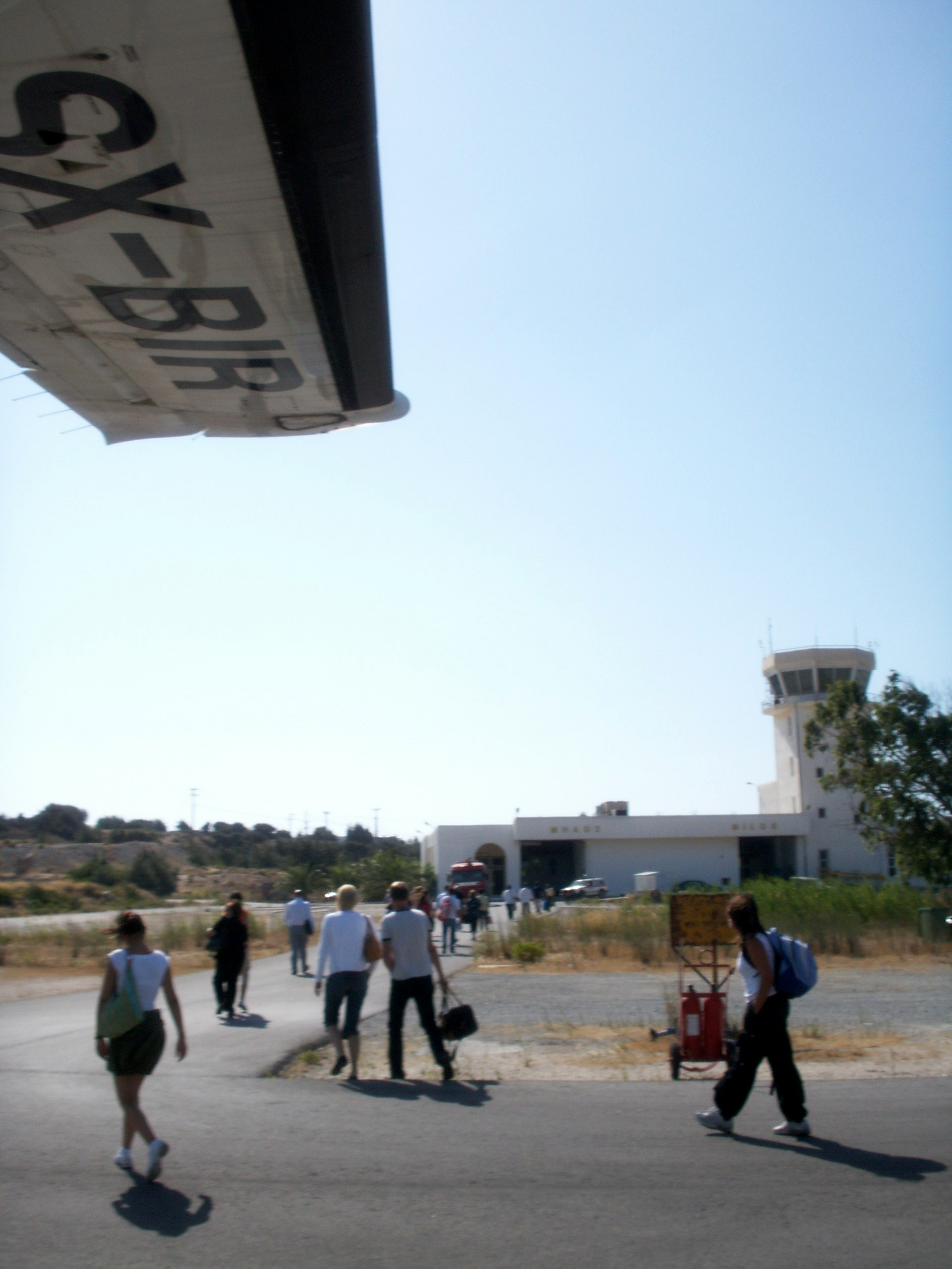 View of Milos airport terminal, in Milos island, Greece